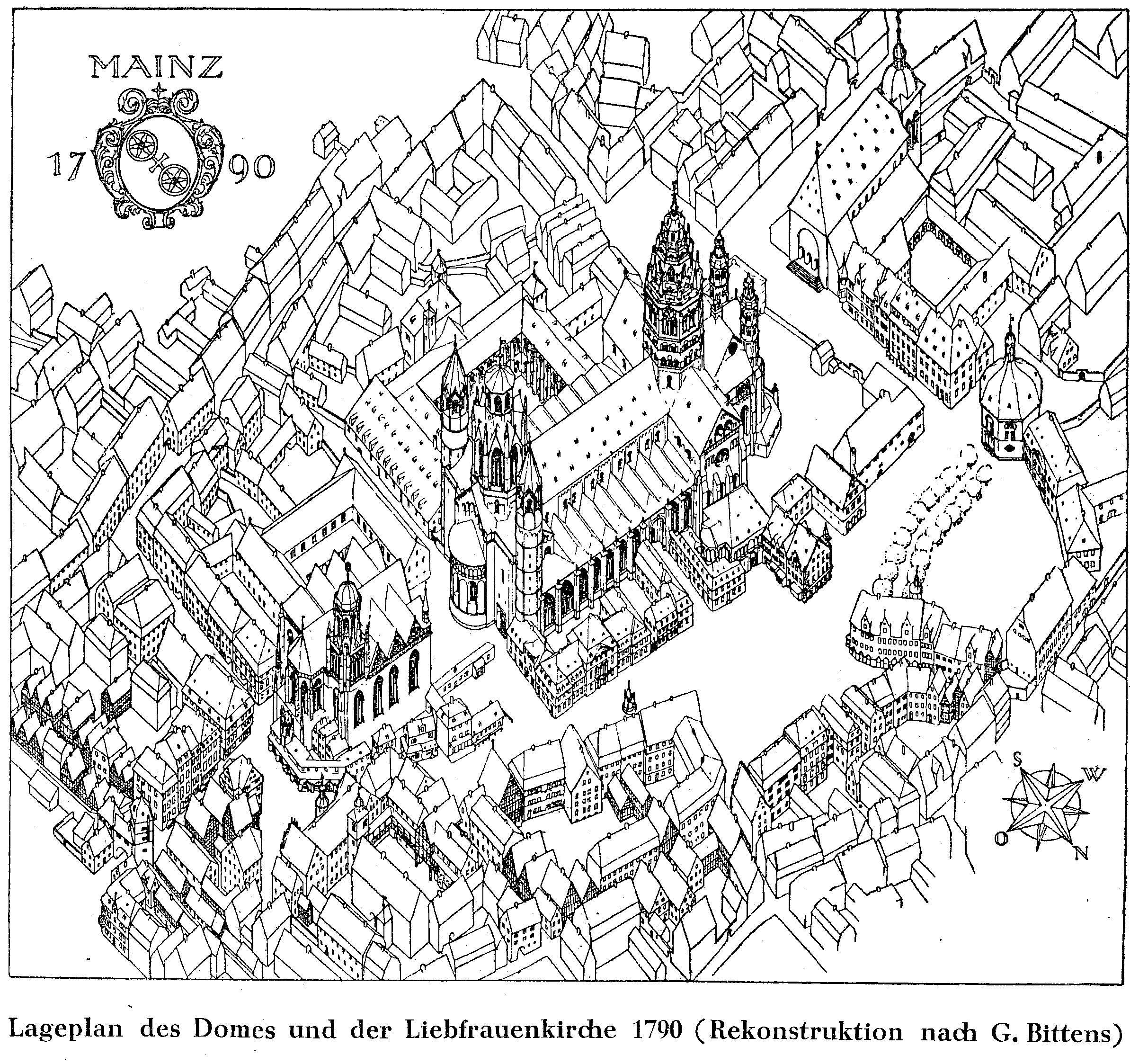 Historical Collegiate Church of St. Maria ad gradus surroundings